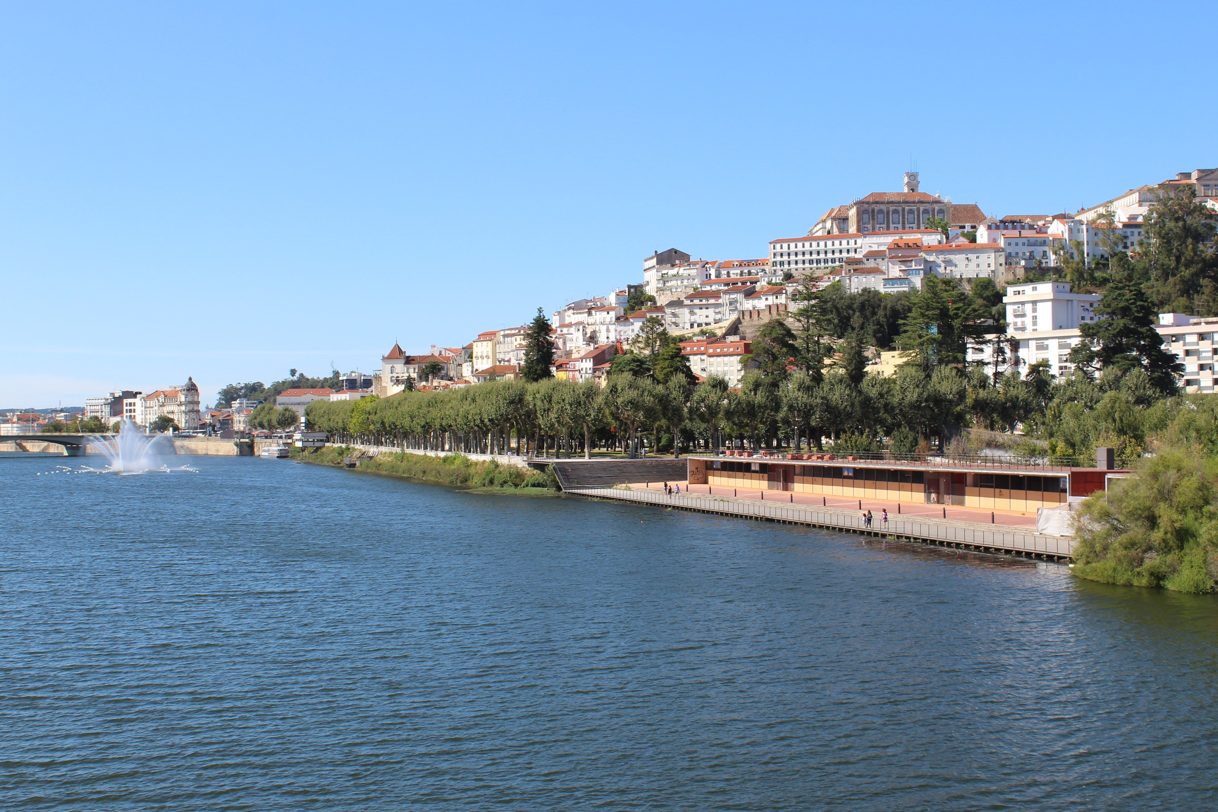 View over the city, on Pedro Inês Bridge